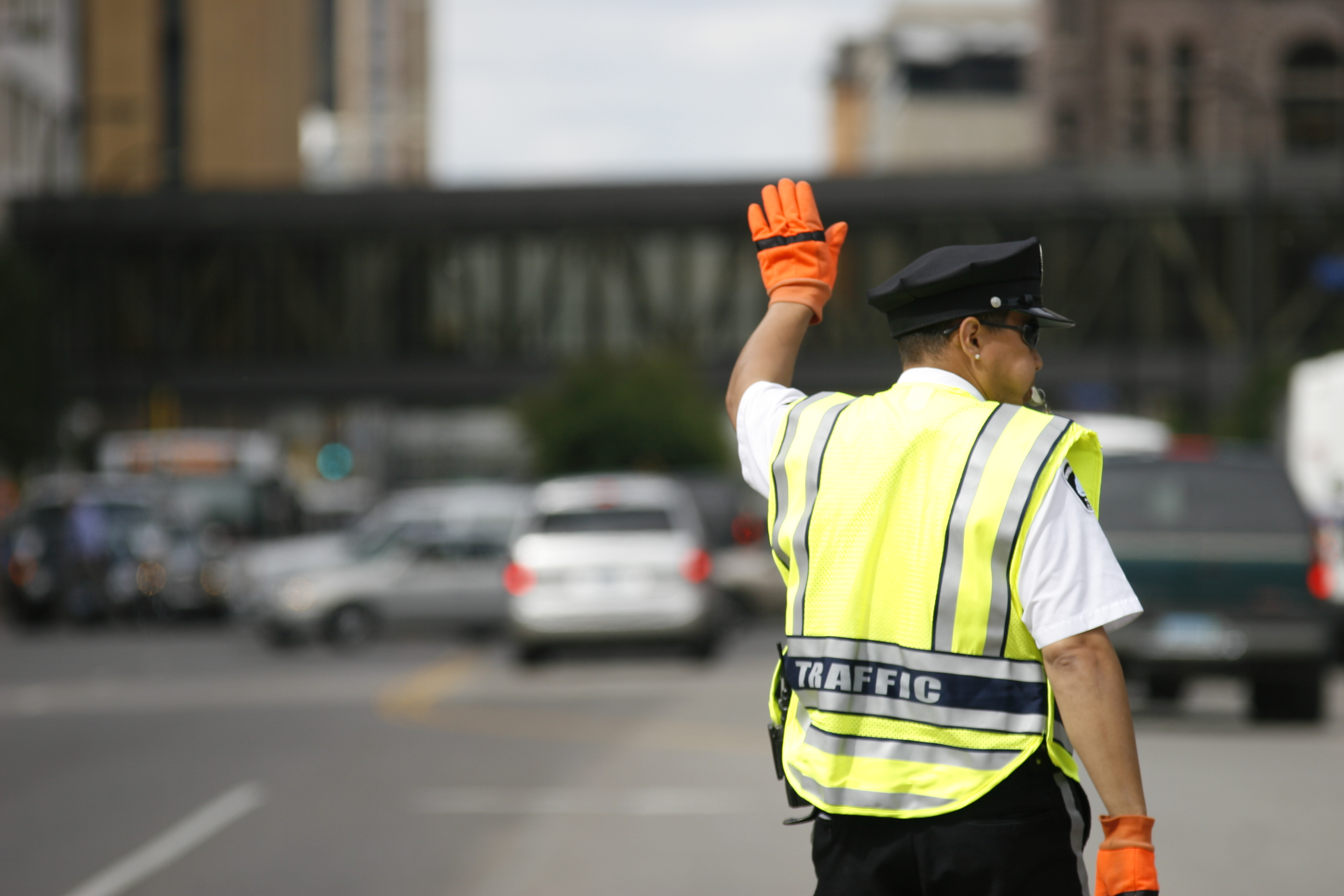 A Minneapolis Police Department Traffic Officer directing traffic in downtown Minneapolis.